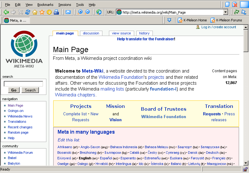 Screenshot of K-Meleon 1.5.1